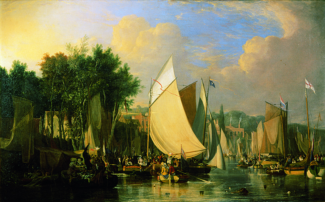 Painting, 'Thorpe Water Frolic, Afternoon 1824' by Joseph Stannard (1797-1830), oil on canvas, 1824; 1098 mm x 1758 mm